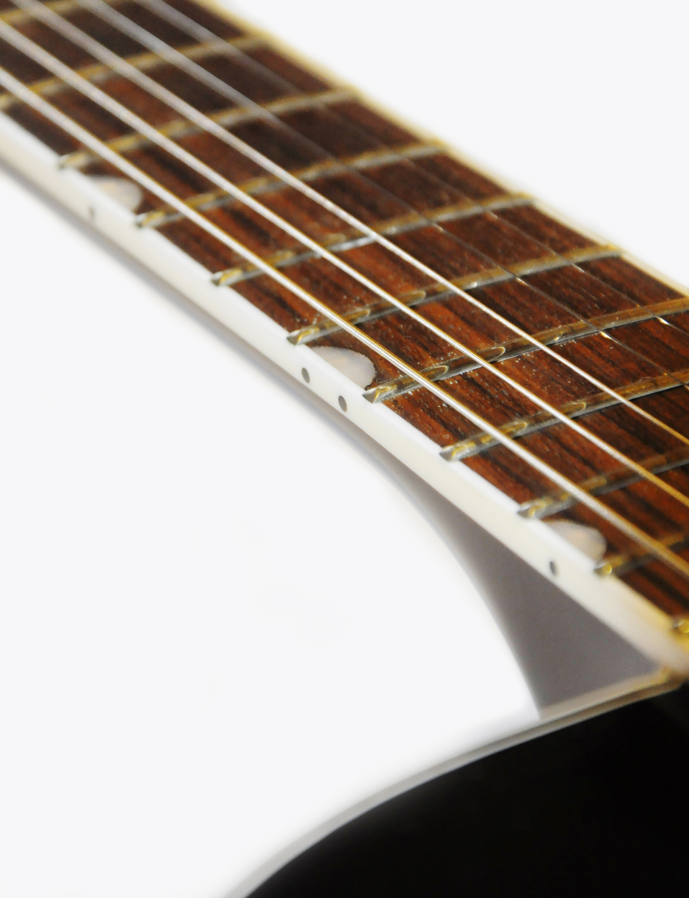 Mother of Pearl inlay on Gretsch Electromatic guitar